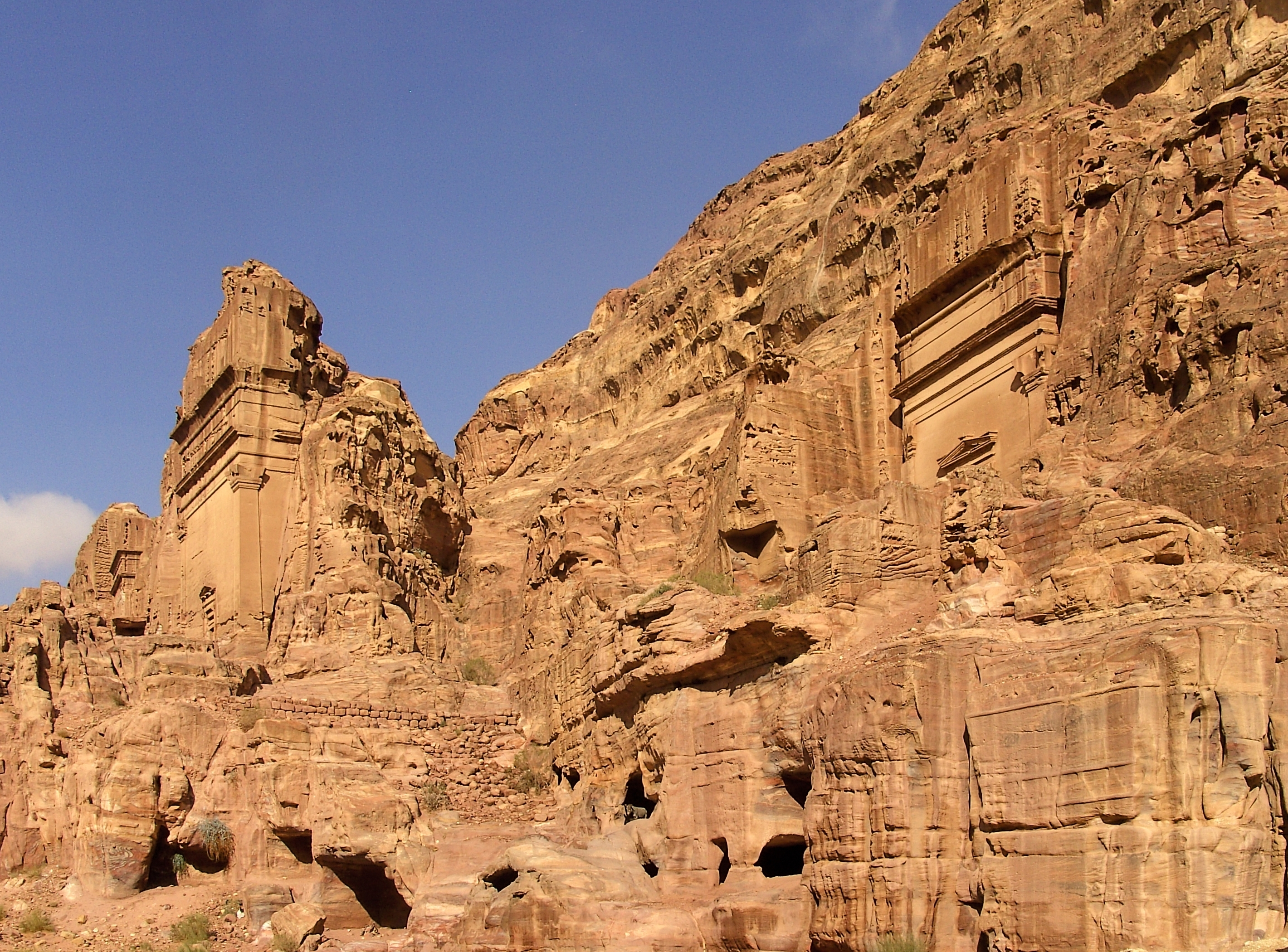 The Tombs of Kings in Petra.